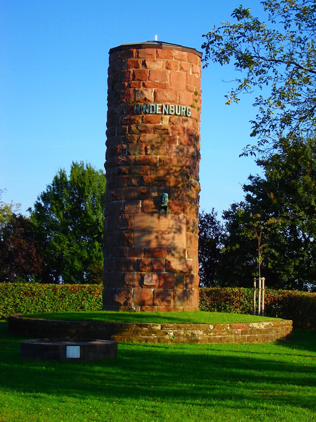 Paul von Hindenburg monument in Struempfelbrunn (Germany)